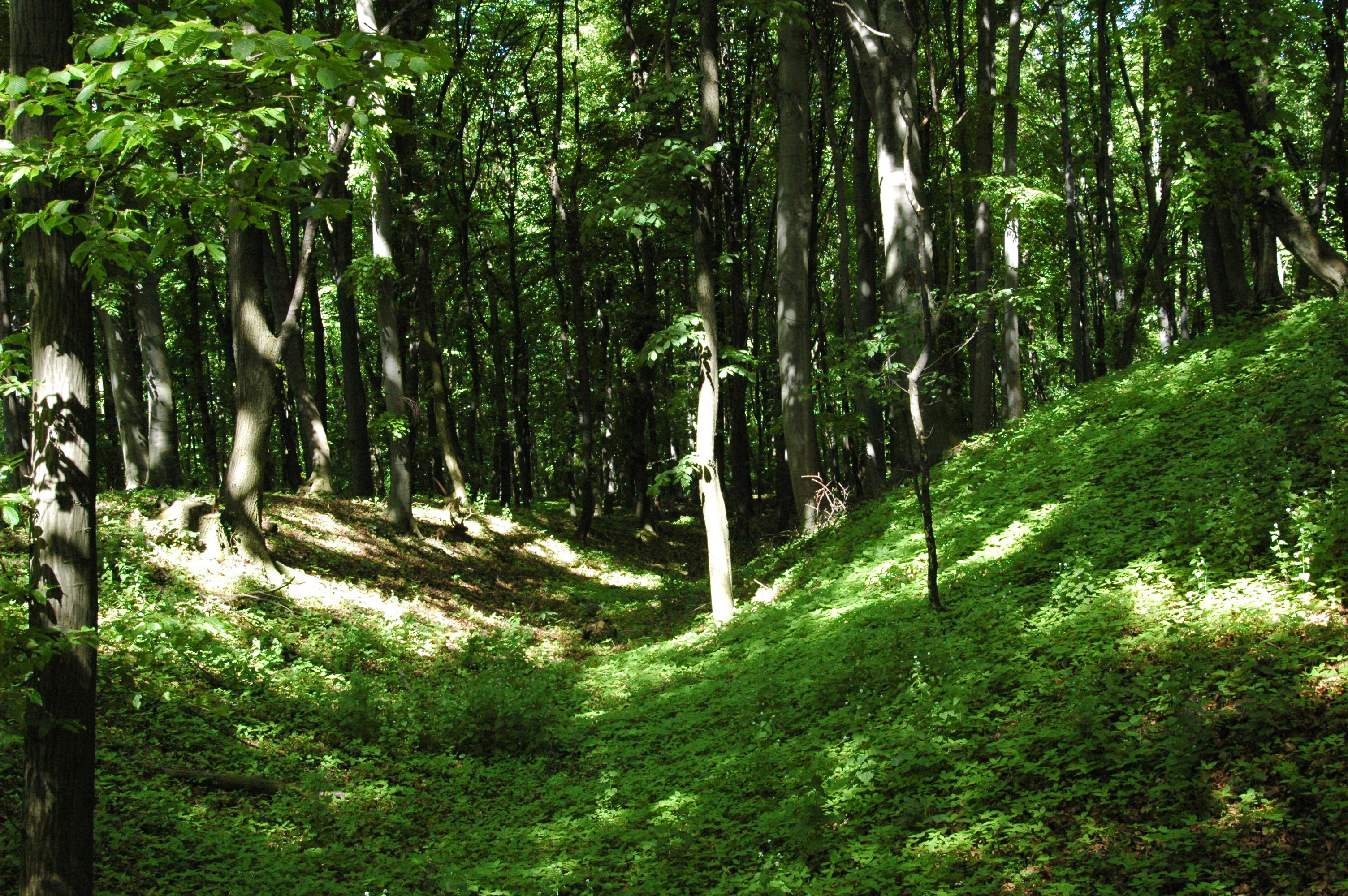 Remnants of celtic oppidum on the top of Zámčisko. The first settlement was founded approximately in 2000 BC by Věteřov-Maďarovce culture tribe. Celtic oppidum was abandoned in 1 century AD.